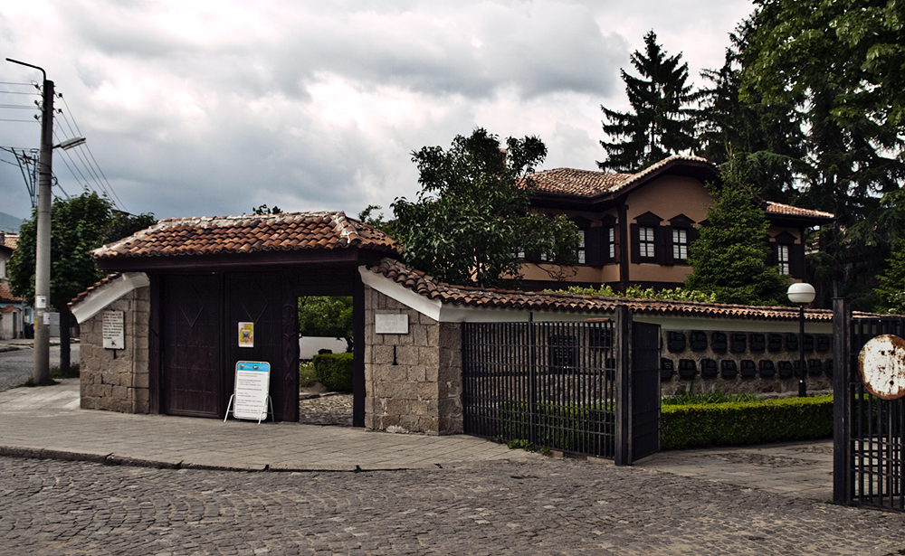 Pabagyurishte history museum